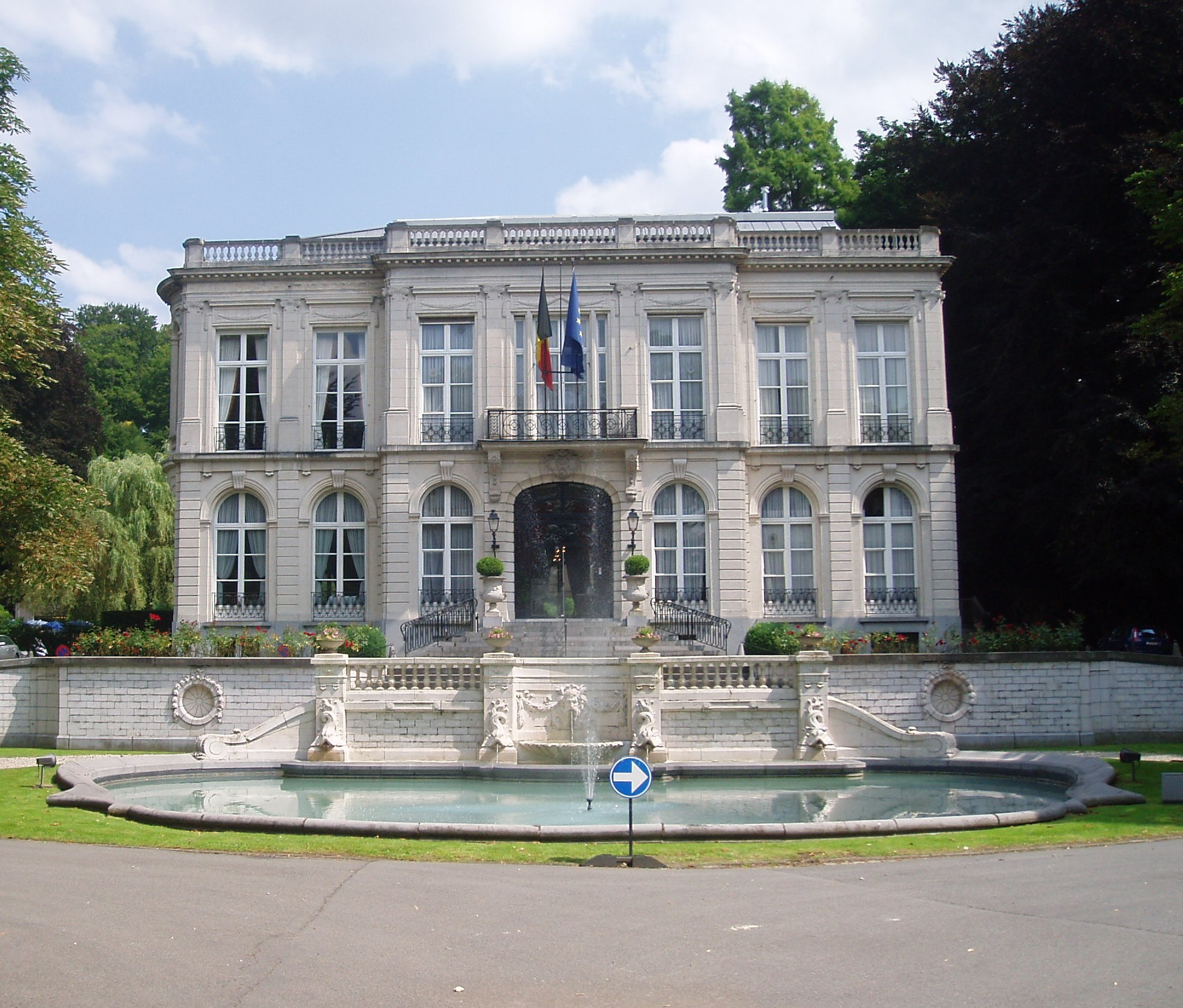 Auderghem (Belgium): St. Anna's castle.